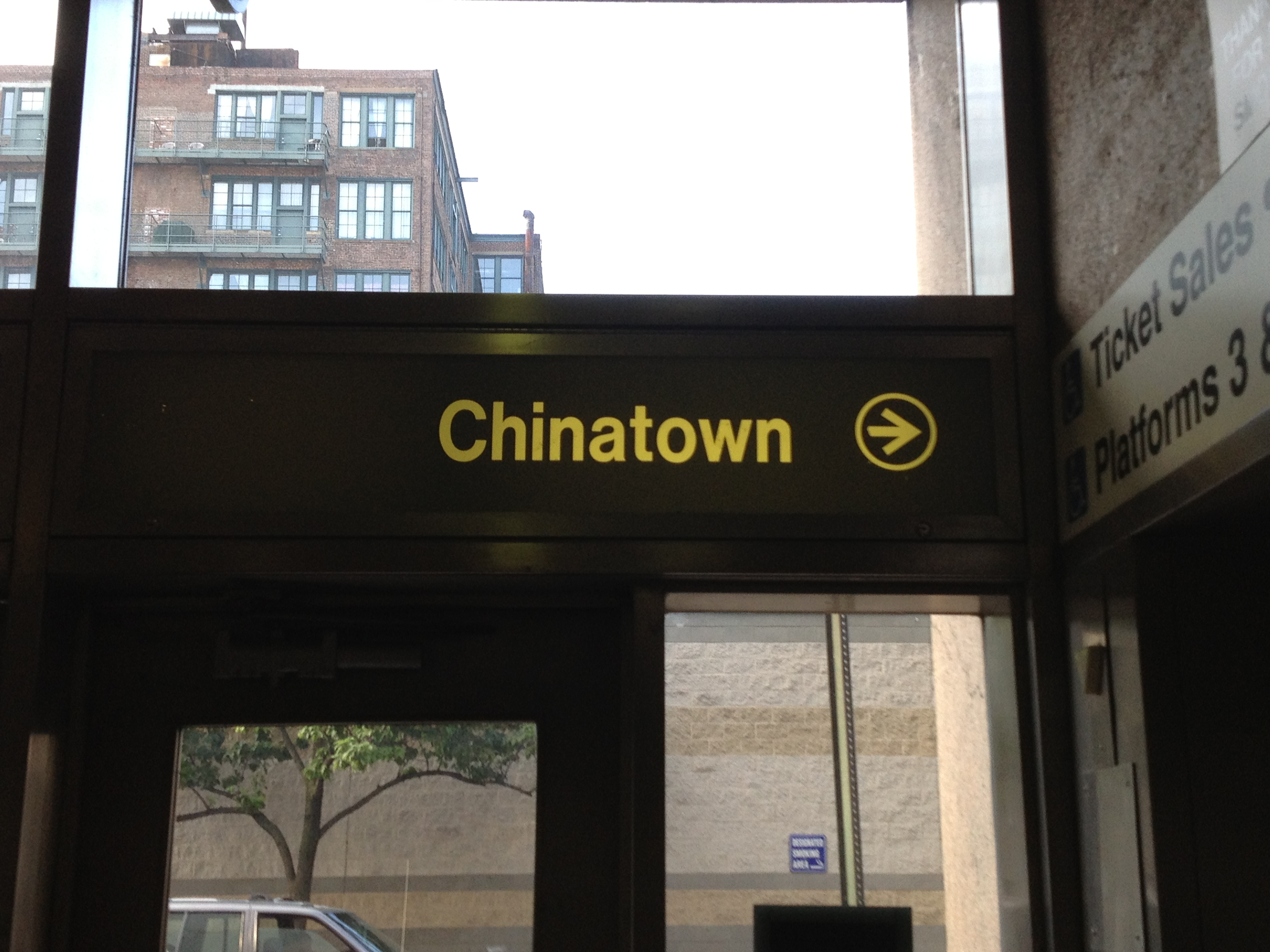 Market East sign in Philadelphia pointing to "Chinatown"